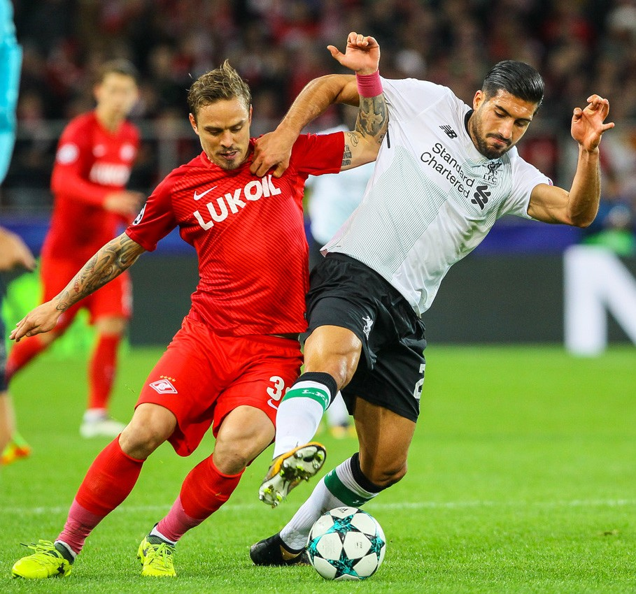 Andrey Eshchenko, Emre Can